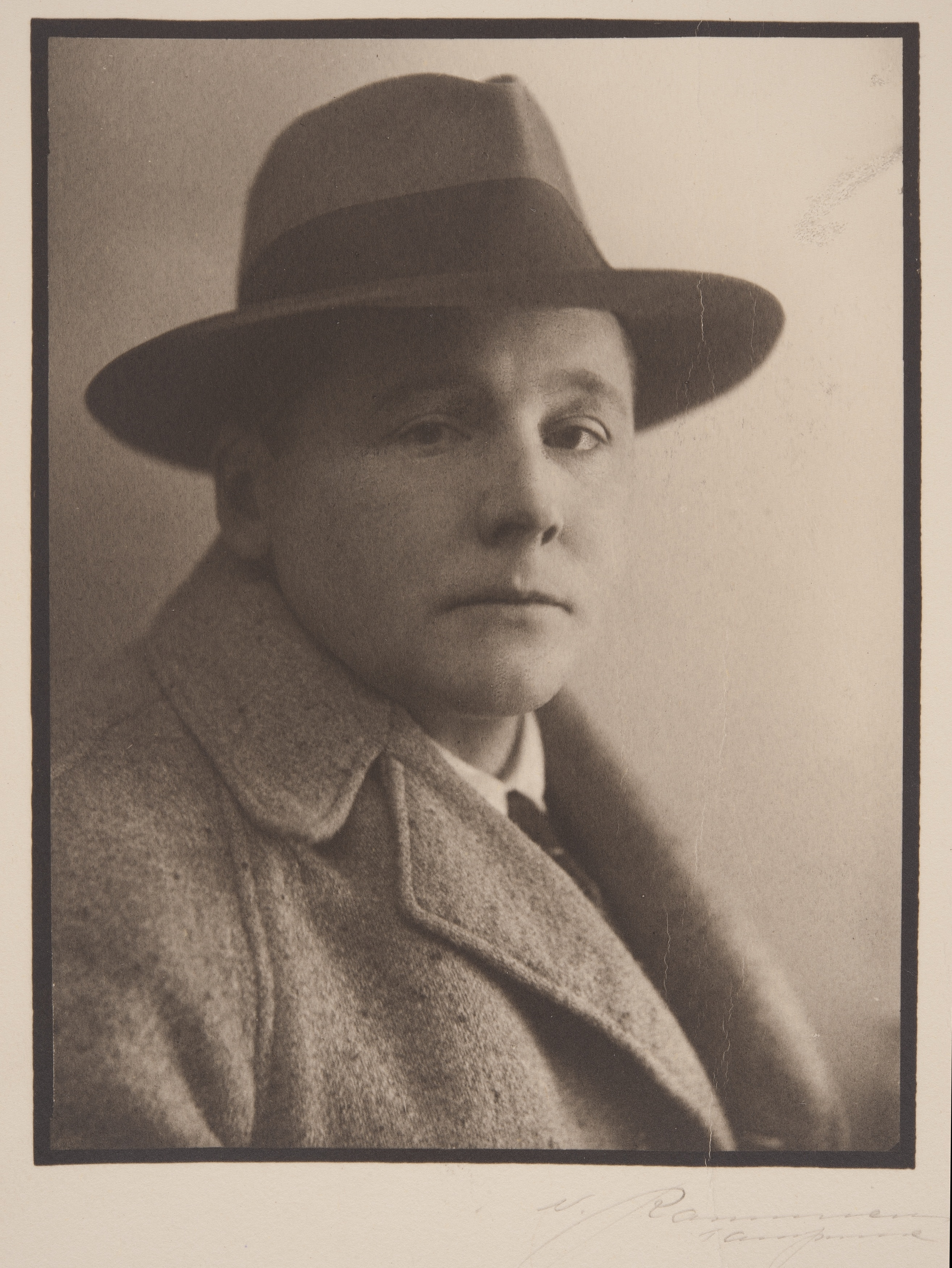 Photograph of the Finnish actor Reino Volanen (1890–1962).